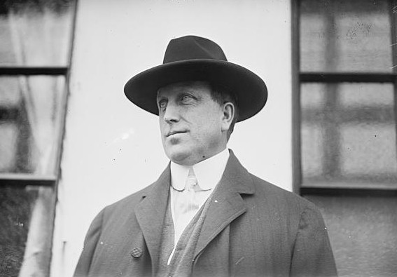 William Randolph Hearst (1863 – 1951), American newspaper magnate, politician